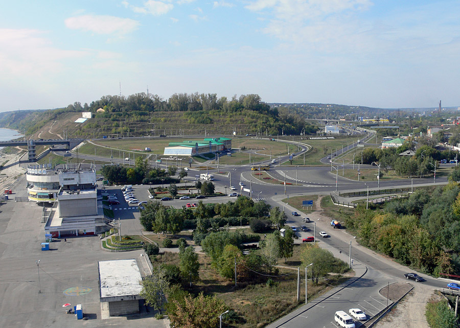 Nagorny Park in Barnaul as seen from the Parus Business Centre